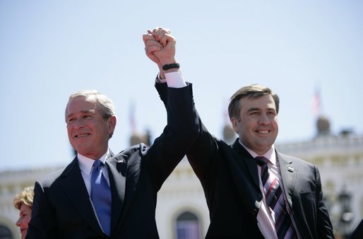 U.S. President George W. Bush and President Mikhail Saakashvili of Georgia react to the cheering of thousands of Tbilisi citizens in Freedom Square Tuesday, May 10, 2005. "You are building a democratic society where the rights of minorities are respected, where a free press flourishes, a vigorous opposition is welcome, and unity is achieved through peace," said the President in his remarks. "In this new Georgia, the rule of law will prevail, and freedom will be the birthright of every citizen."